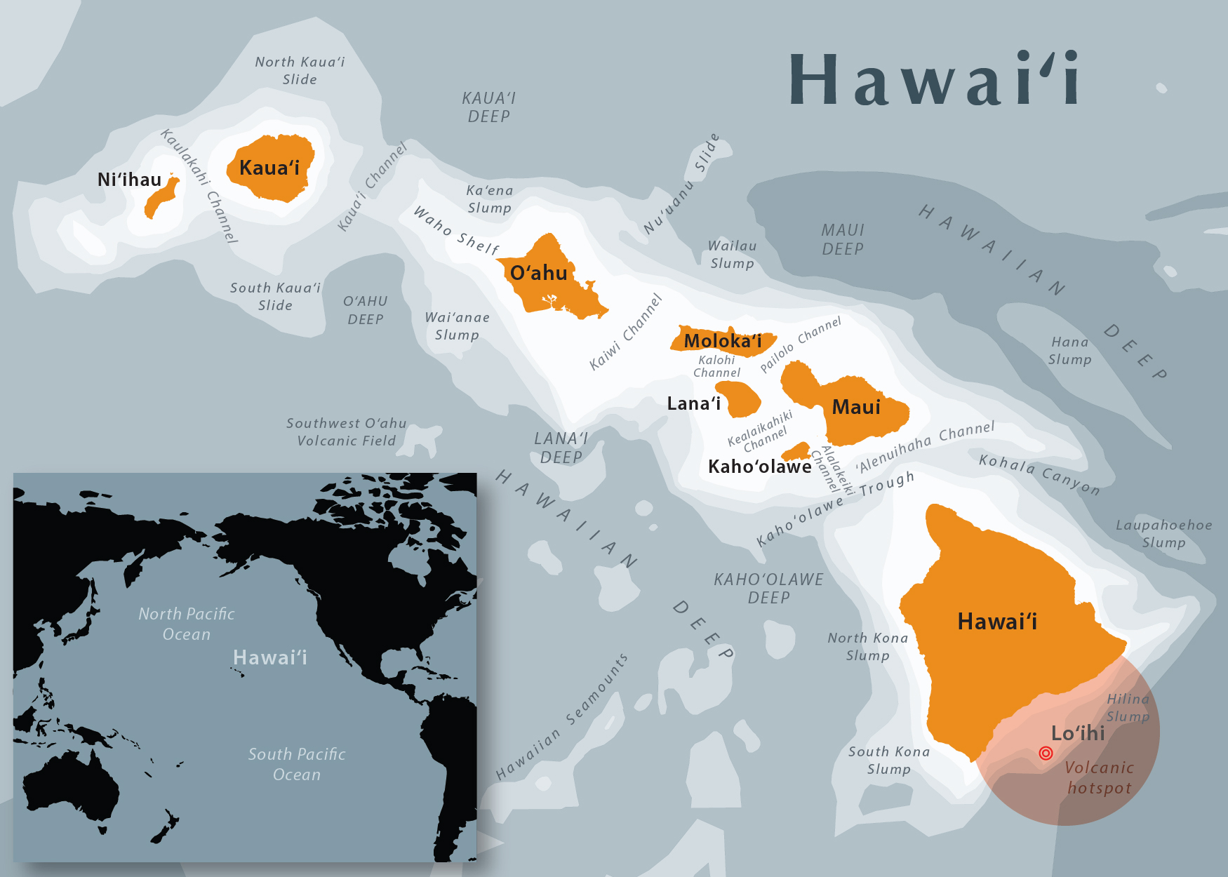 Map of the main islands of Hawaii. UTM Zone 4N. Data sources: Natural Earth, Hawaii State GIS Program, USGS map "Hawaii's Volcanoes Revealed".